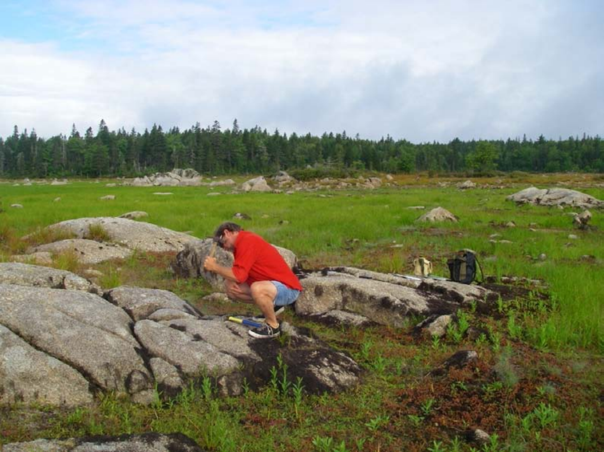 Acadia University technician Don Osburn sampling rocks near the rim of the Bloody Creek crater, Nova Scotia, for evidence of impact shock features.